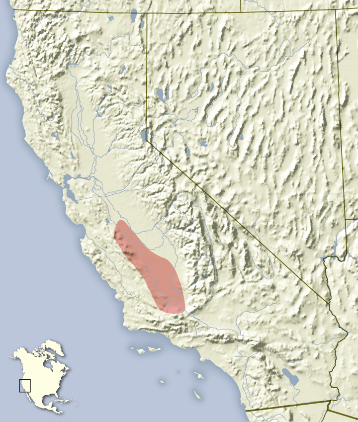 Distribution map of the San Joaquin antelope squirrel